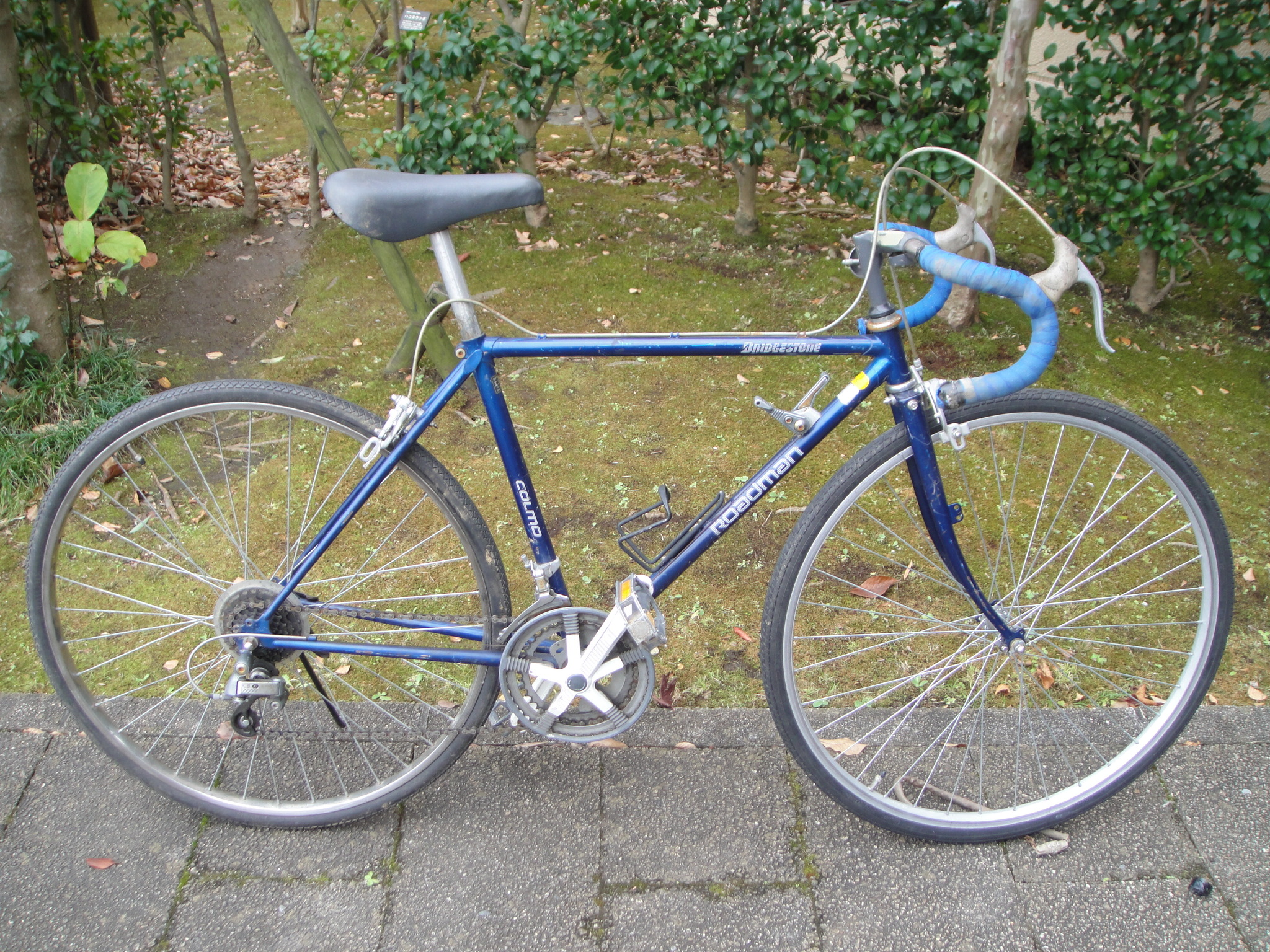 Bridgestone Roadman. The old Japanese bike.